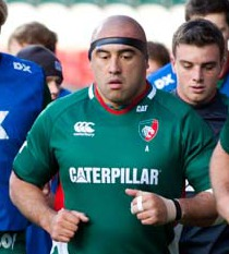 Leicester Tigers warm up before an LV= Cup pool match between Leicester Tigers and London Irish at Welford Road, Leicester.